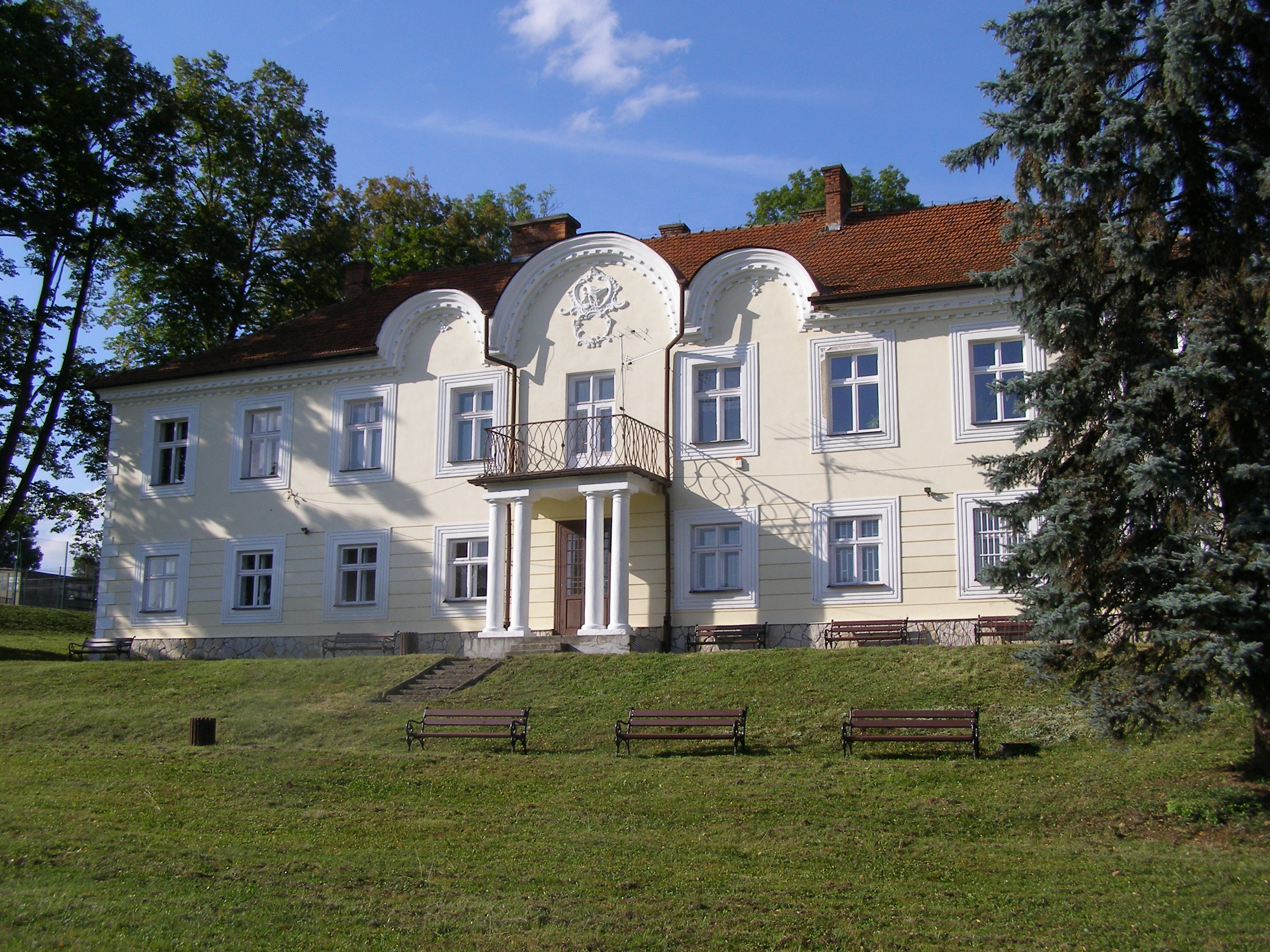 Ryglice - Ankwicz palace